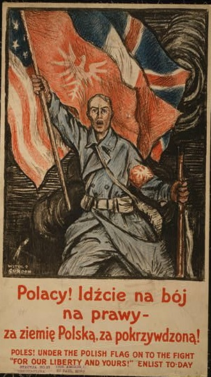 Poles! Under the Polish flag, on to the fight - "For our liberty and yours!" Enlist to-day (as per official LOC title)